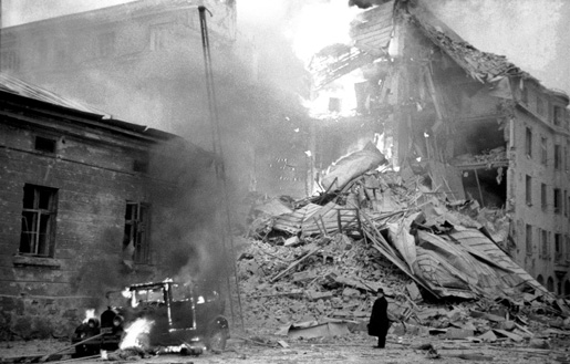 Damage of an air raid in Helsinki on the first day of the Winter War.